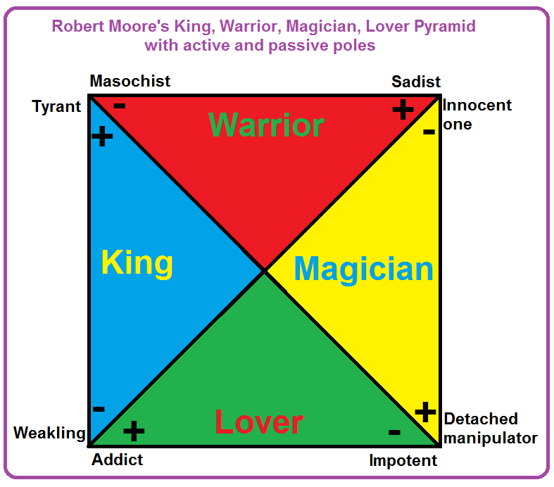 Robert Moore's four masculine archetypes: King, Warrior, Magician, Lover